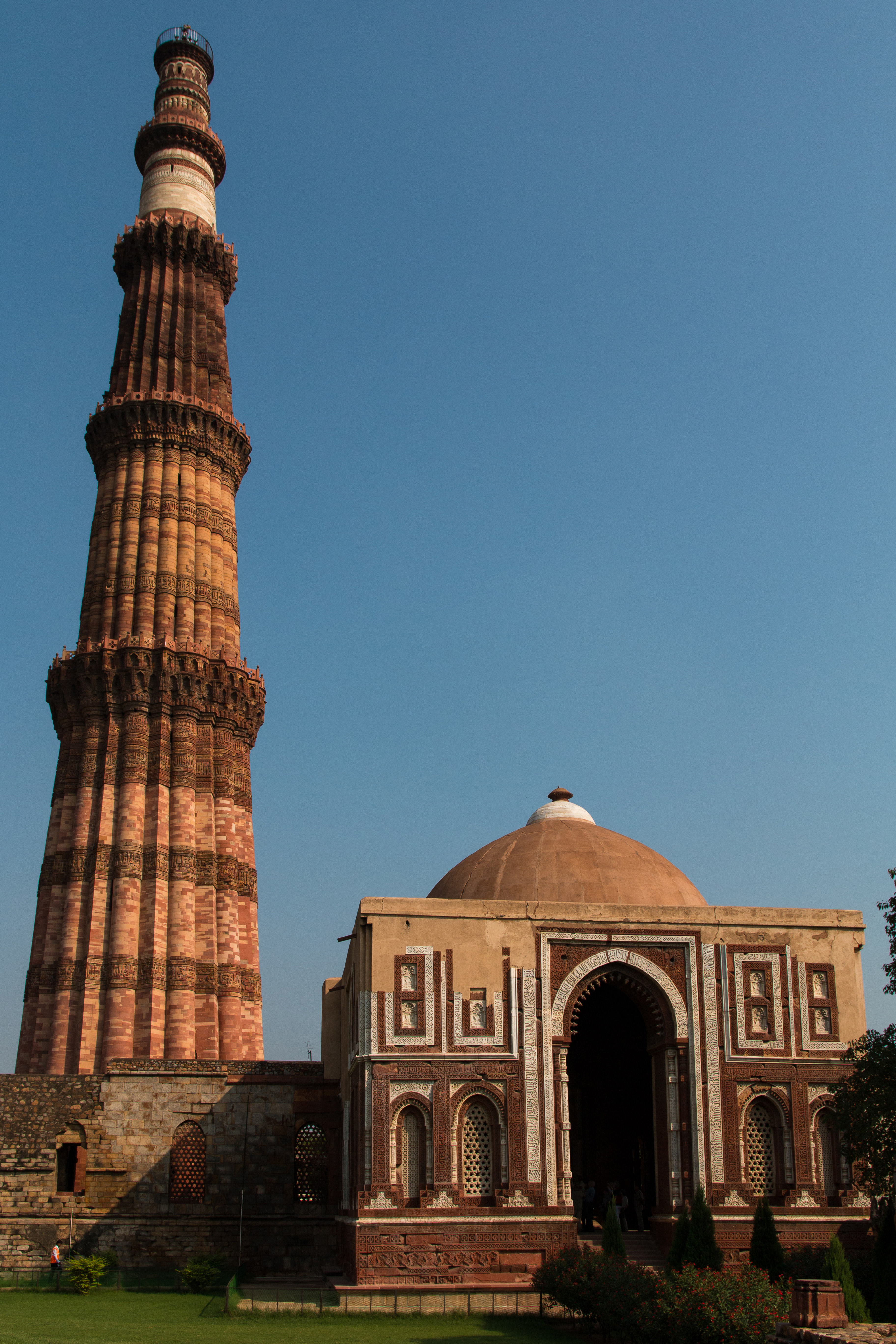 Qutub Minar and Alai Darwaza. His imperfect dome is the first to be built in India, by a Persian architect who had to teach this new technique.